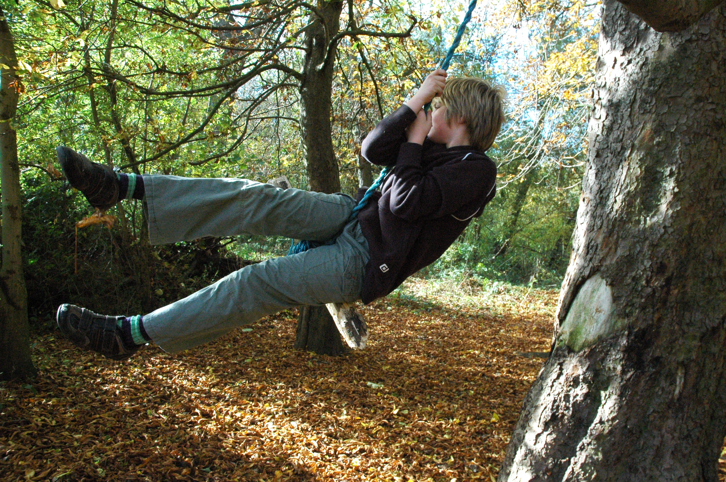 Boy on a tree swing